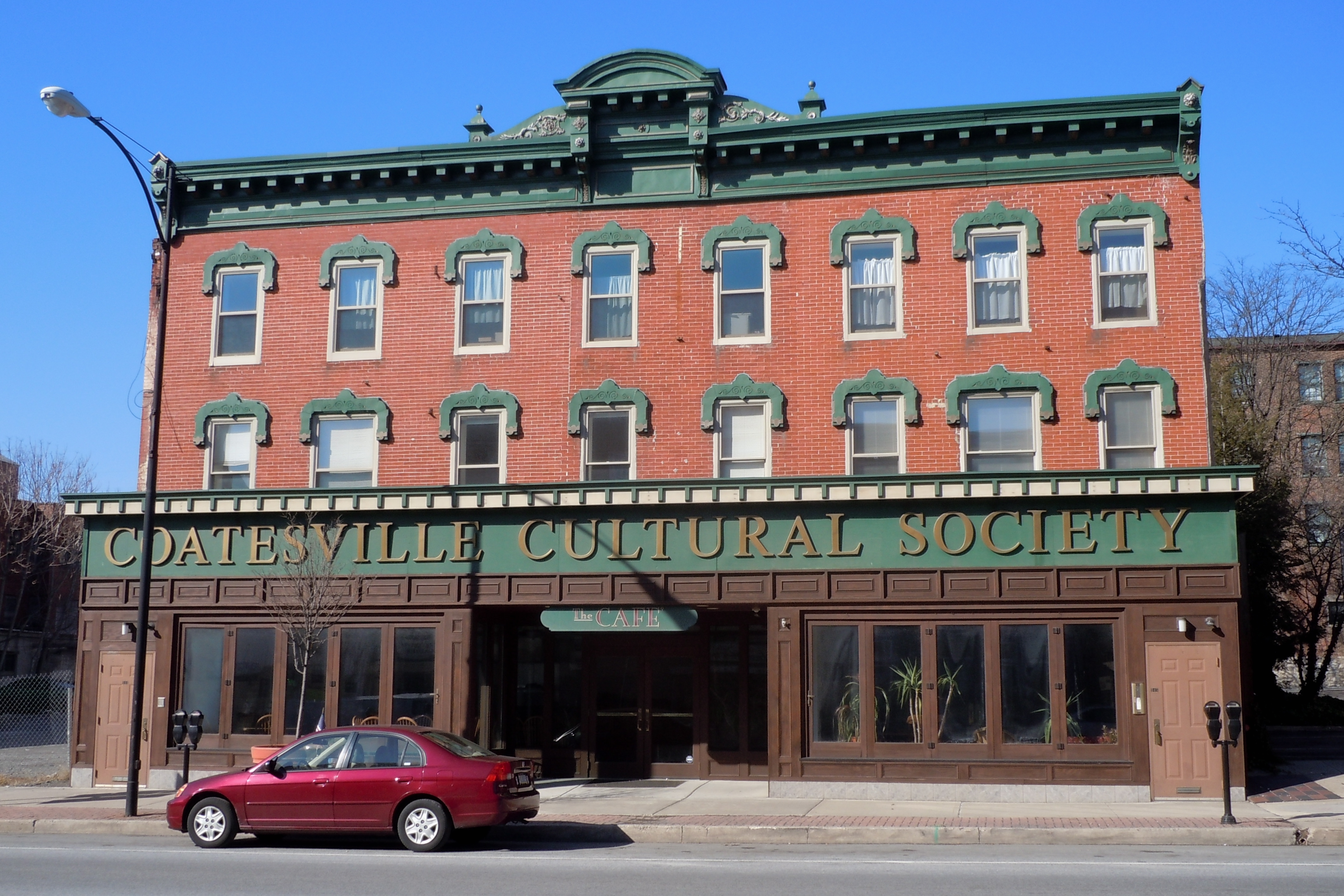 Coatsville Culture building near 1st and Lincoln Way (Old US 30, Lincoln Highway) in Coatsville, Pennsylvania. Part of Coatesville Historic District on the NRHP since May 14, 1987. The HD is roughly bounded by Chestnut Street (north, then clockwise), 6th Avenue (east), Oak Street (south), 5th Avenue, Harmony Street (south), and 1st Avenue (west) in Coatesville, PA